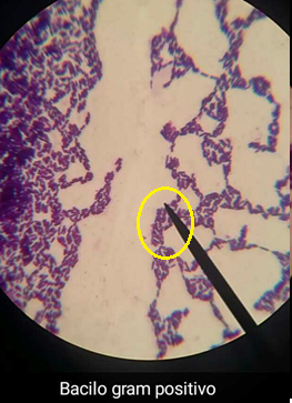 Bacilo gram positivos (color morado) muestra observada con lente 100x en el laboratorio de biología celular de la Universidad de las Fuerzas Armadas ESPE Sangolquí-Ecuador